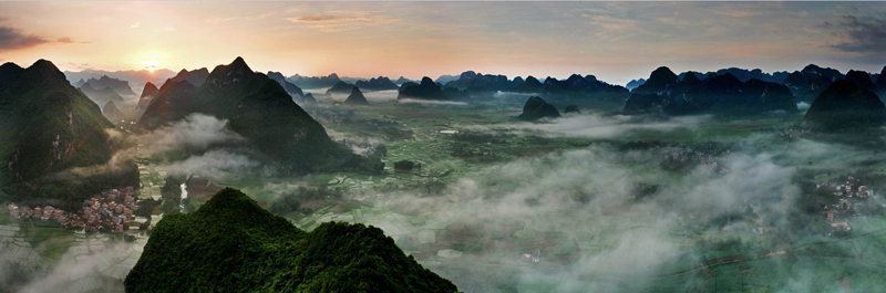 Idyllically landscapes in Chongzuo